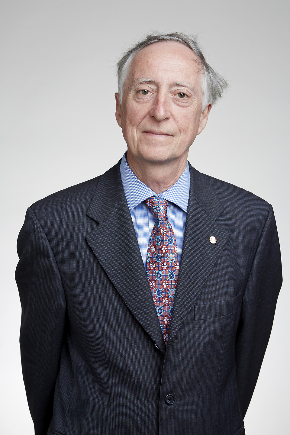 Graham Arthur Charlton Bell FRS FRSC (born March 3, 1949) is an English academic, writer, and evolutionary biologist with interests in the evolution of sexual reproduction and the maintenance of variation. He developed the "Tangled Bank" theory of evolutionary genetics after observing the asexual and sexual behavior patterns of aphids as well as monogonont rotifers. Attribution: The Royal Society